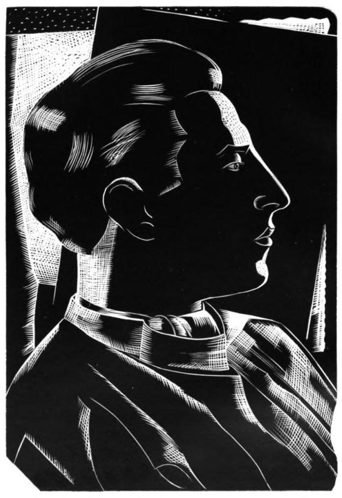 Paul Nash (11 May 1889 – 11 July 1946), British surrealist painter and war artist, woodcut self-portrait